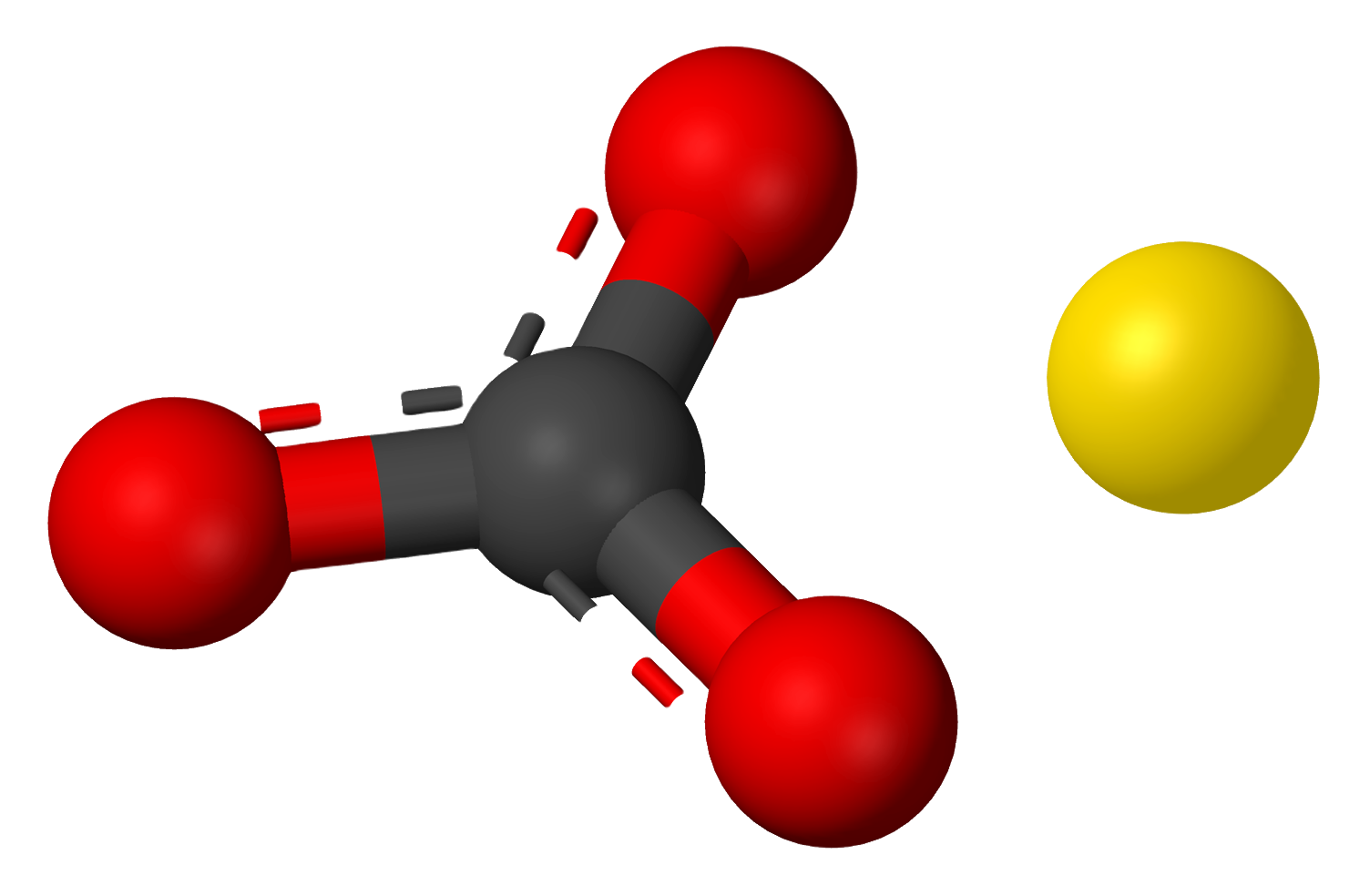 Calcium Carbonate Molecule (CaCO3)